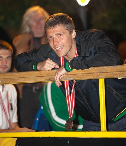 Donaldas Kairys at the welcome home concert from the FIBA World Championship in Turkey. Taken in Vilnius by Donaldas Kairys's sister.